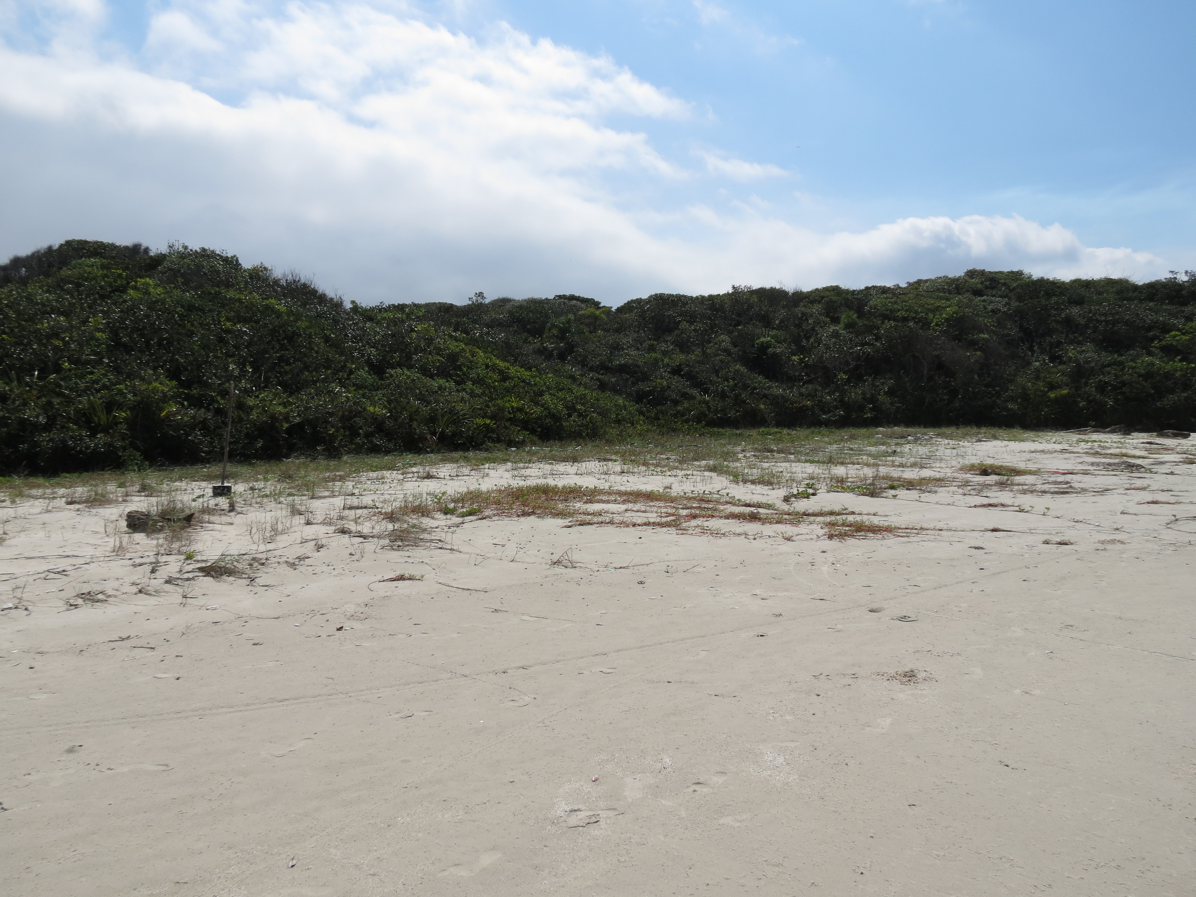 Restinga forest in Itaguaré beach. Restingas de Bertioga State Park.